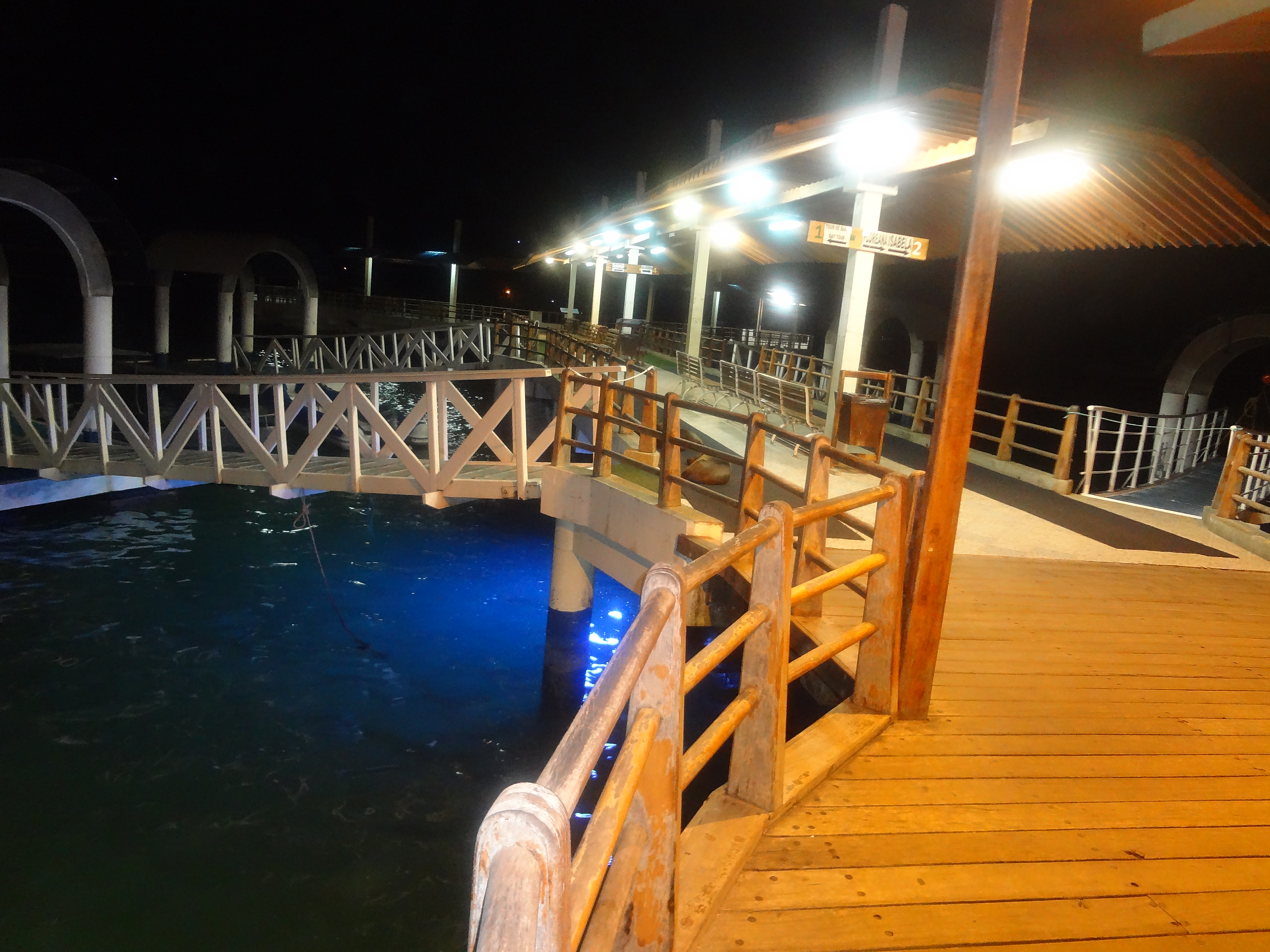 (at night) Puerto Ayora, Island of Santa Cruz